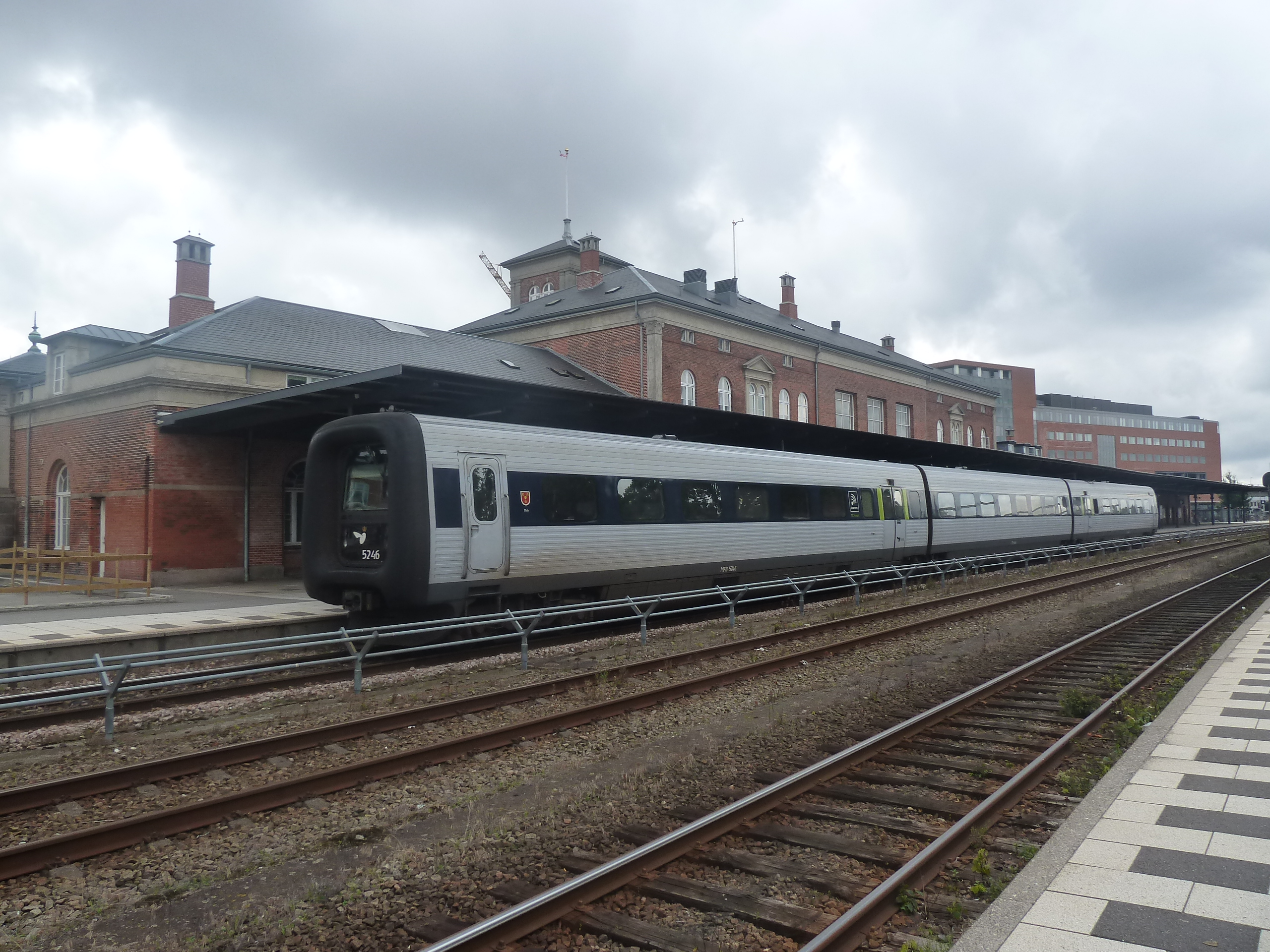 Diesel multiple unit IC3 46 in Aalborg in Denmark.